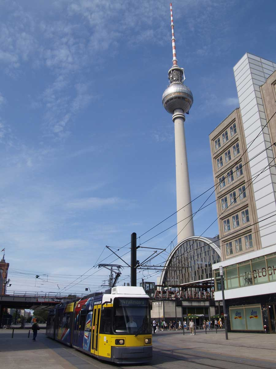 ADtranz GT6N of Berlin tram and TV Tower. Taken at Alexanderplatz.